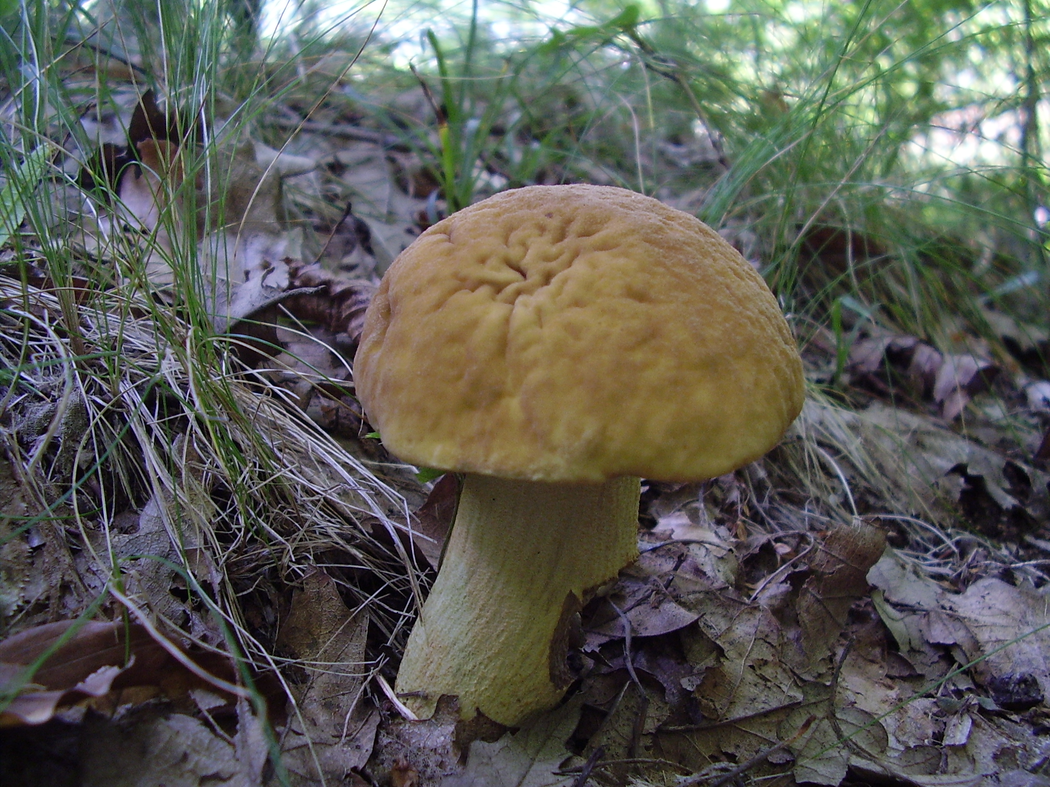 Leccinum crocipodium in deciduous forest in western Stara Planina mountains, Bulgaria.